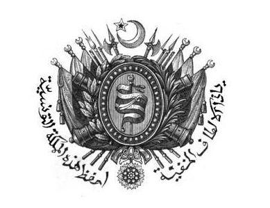 Coat of arms is of the Husseinic family (beys of Tunis)